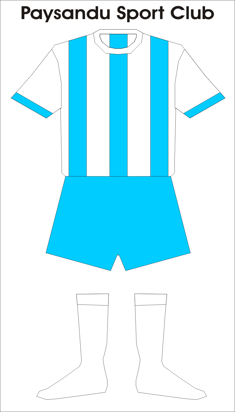 Paysandu traditional home kit.